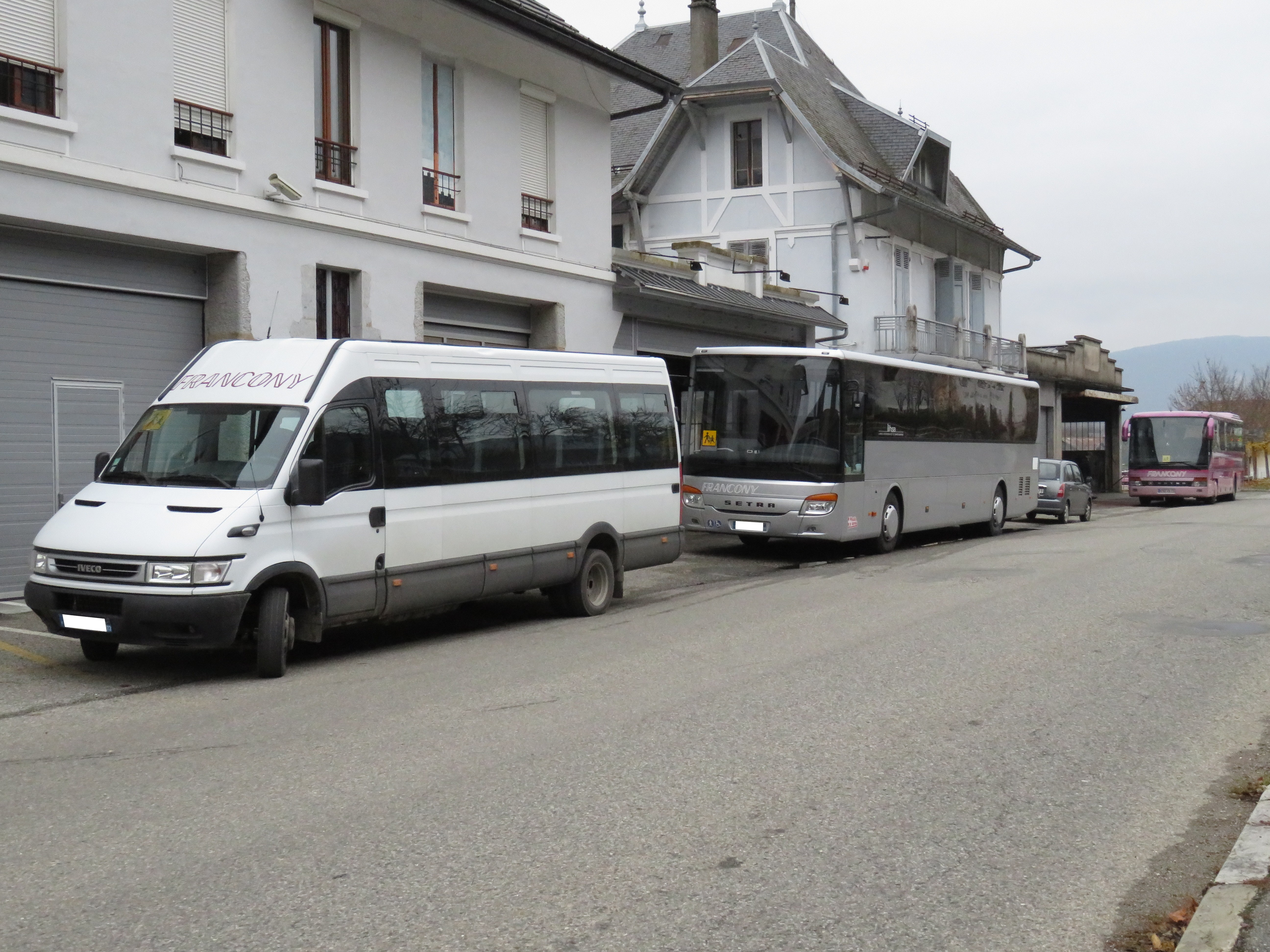 The head office of Francony with some buses in the Avenue Denis Therme (Le Châtelard, France) on November 10, 2017.